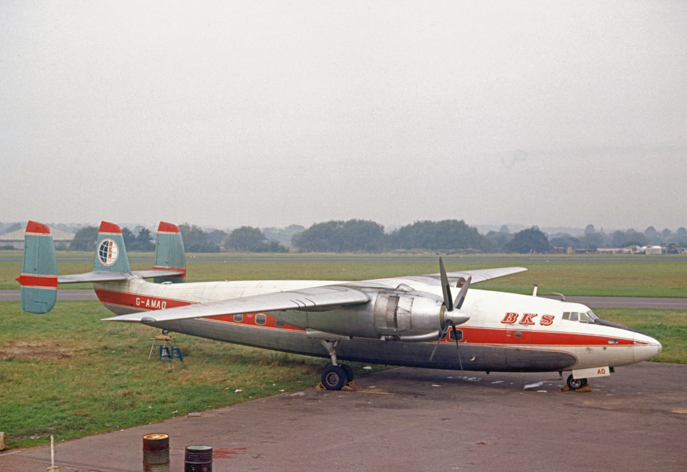 Delivered new to British European Airways in 1952, G-AMAD was sold to BKS Air Transport in 1957. Thereafter, it made occasional visits to Southend, mainly for maintenance by BKS Engineering.